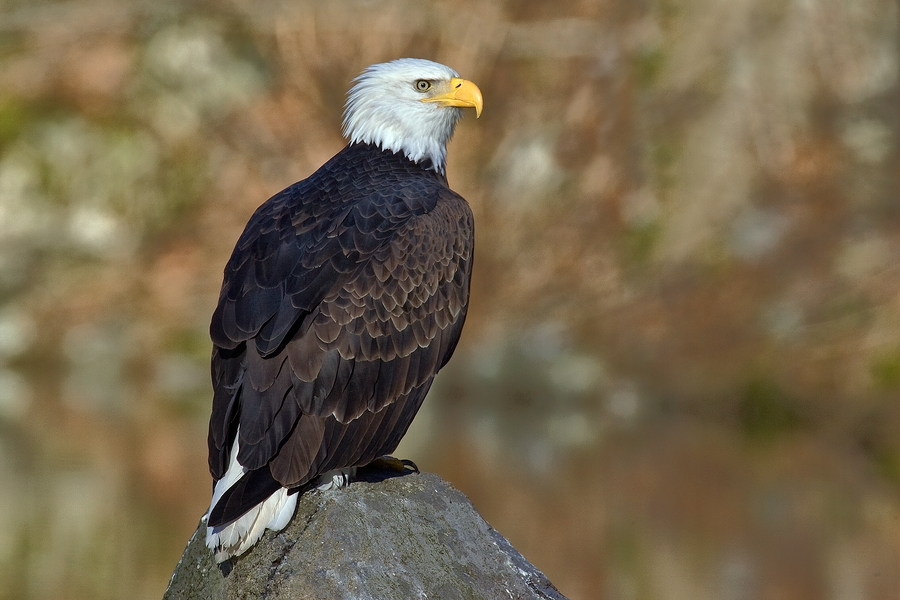 Bald Eagle, Squamish Valley, Near Brackendale, British Columbia